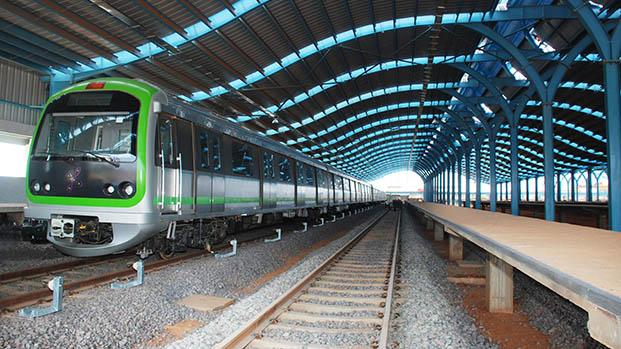 Bangalore Metro Station, India